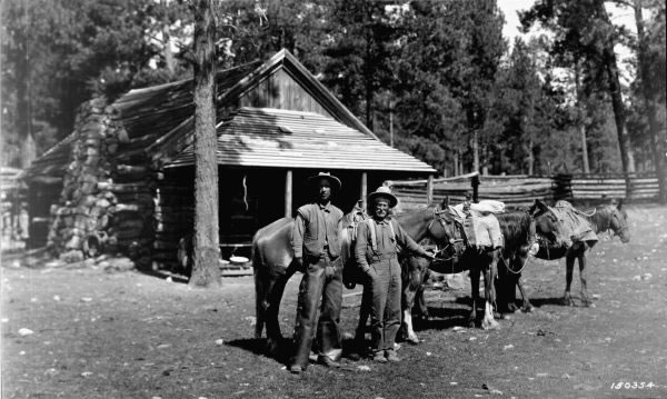 1918—"Uncle" Jim Owen and his pack train at Jacob Lake. On the left is Benji, Wilmot, a cattleman, James Owen , on the right, was a guide and hunter. He was known as the "Cougar killer" of the Kaibab. Photo by E. S. Shipp FS # 150354